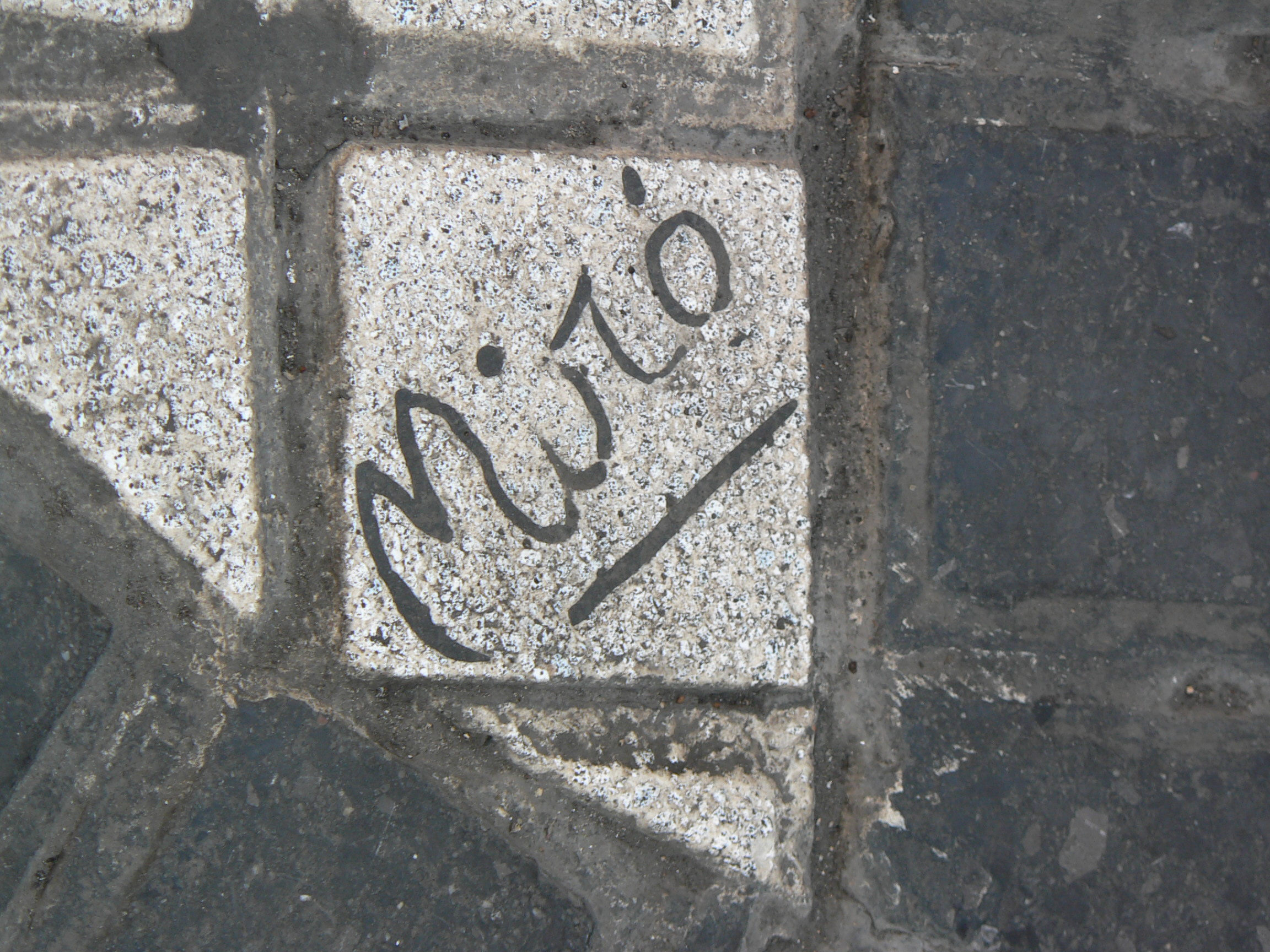 Barcelona, Spain